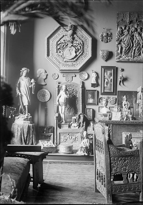 Apartment of the banker and art collector Albert Figdor, Löwelstrasse 8, 1010 Vienna